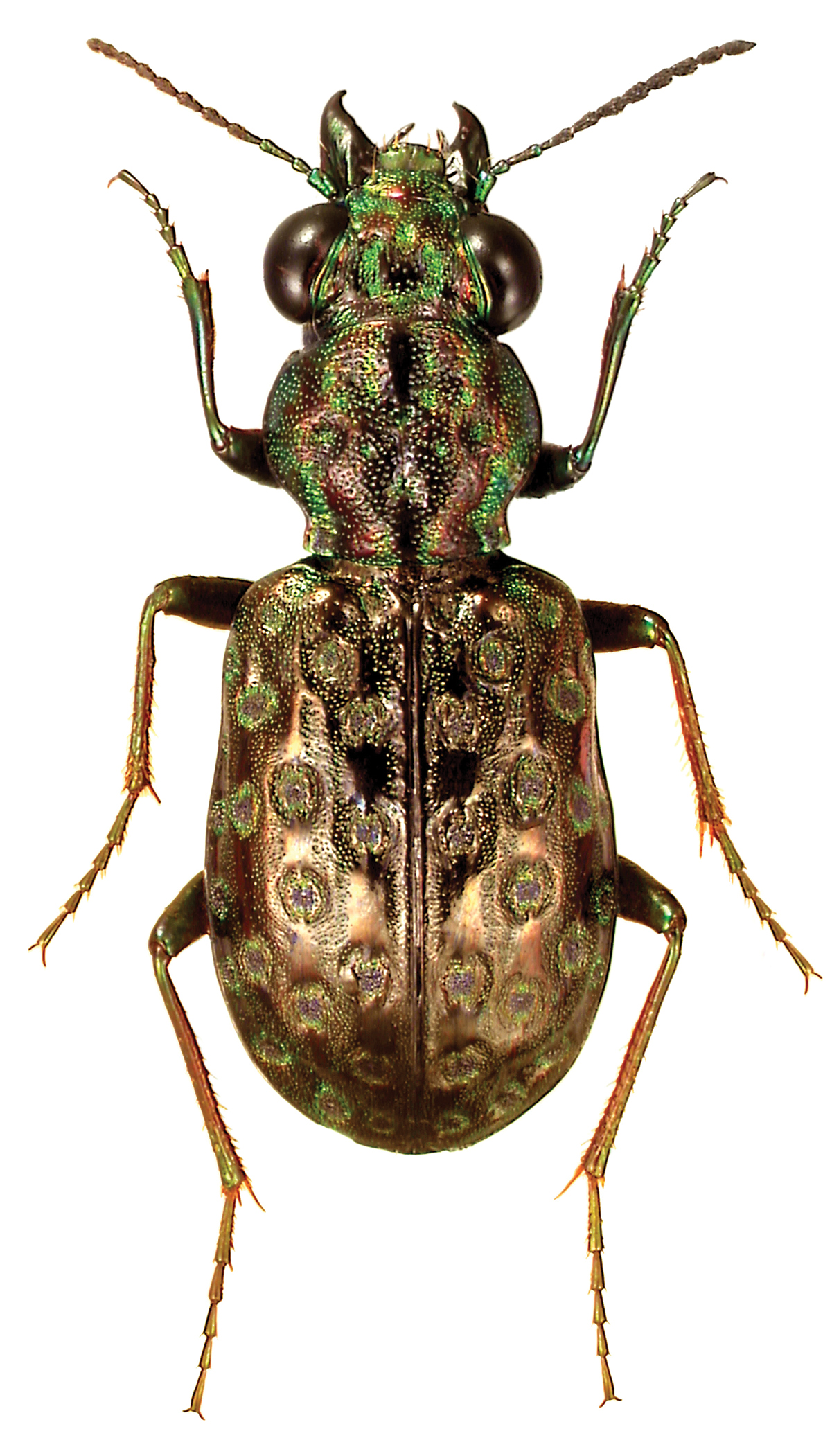 Elaphrus fuliginosus Say. Why the great naturalist Thomas Say gave this eastern species the name fuliginosus (sooty) is not evident. It may refer to the mirrors on the elytra which gives the impression that the animals are dirty. Members of Elaphrus have the ability to produce stridulating chirps by rubbing rows of bristles on the dorsal surface of the abdomen against two areas of parallel ridges on the ventral surface of the elytra. The sound is produced when the beetle is under stress.